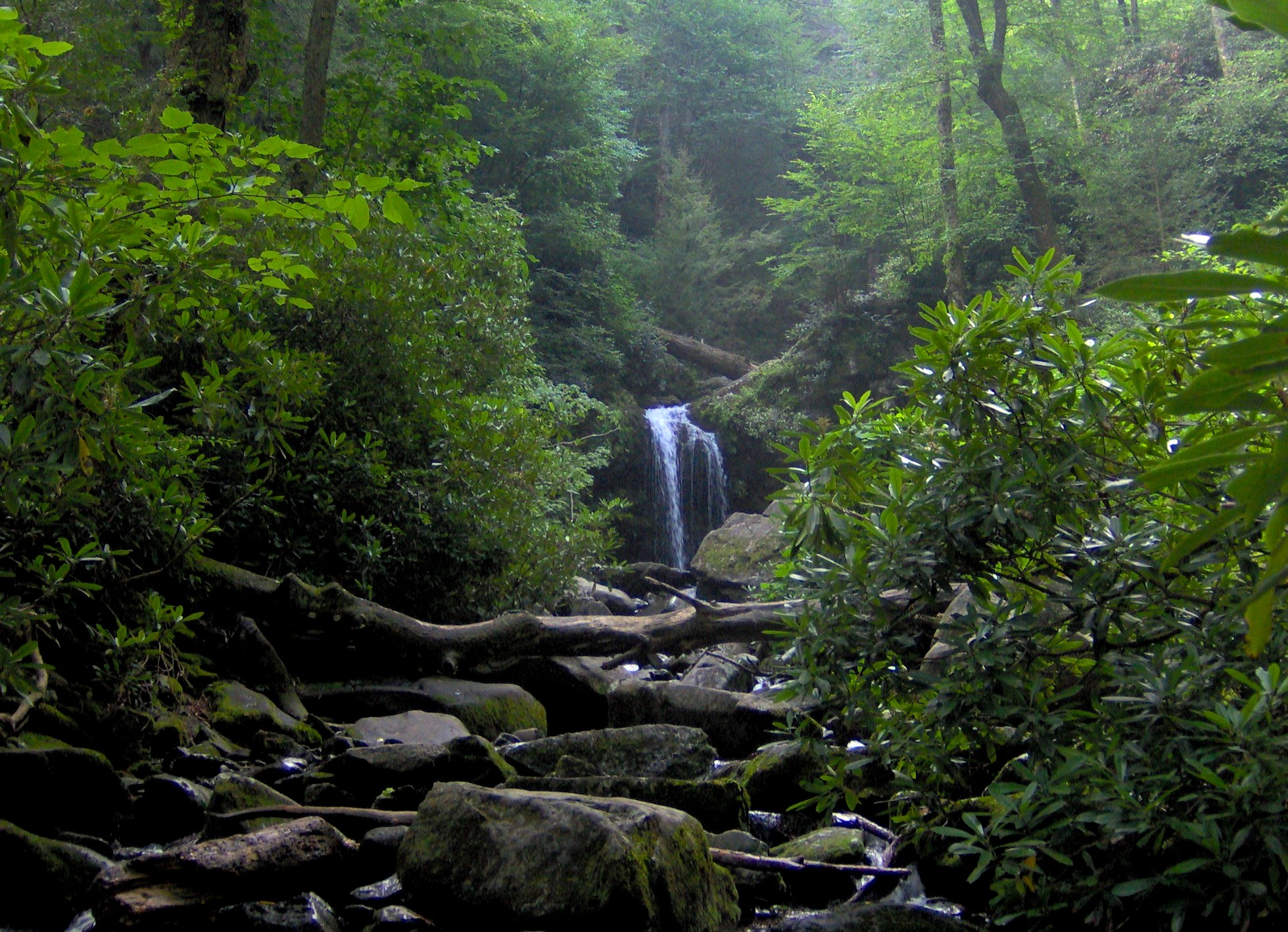 Roaring Fork in the Great Smoky Mountains of East Tennessee, with Grotto Falls in the distance.